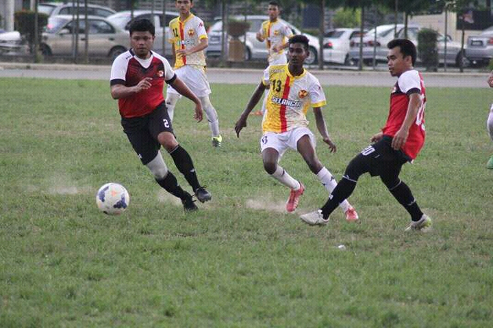 Selangor F.A Cup against Belia Selangor at Stadium Kajang